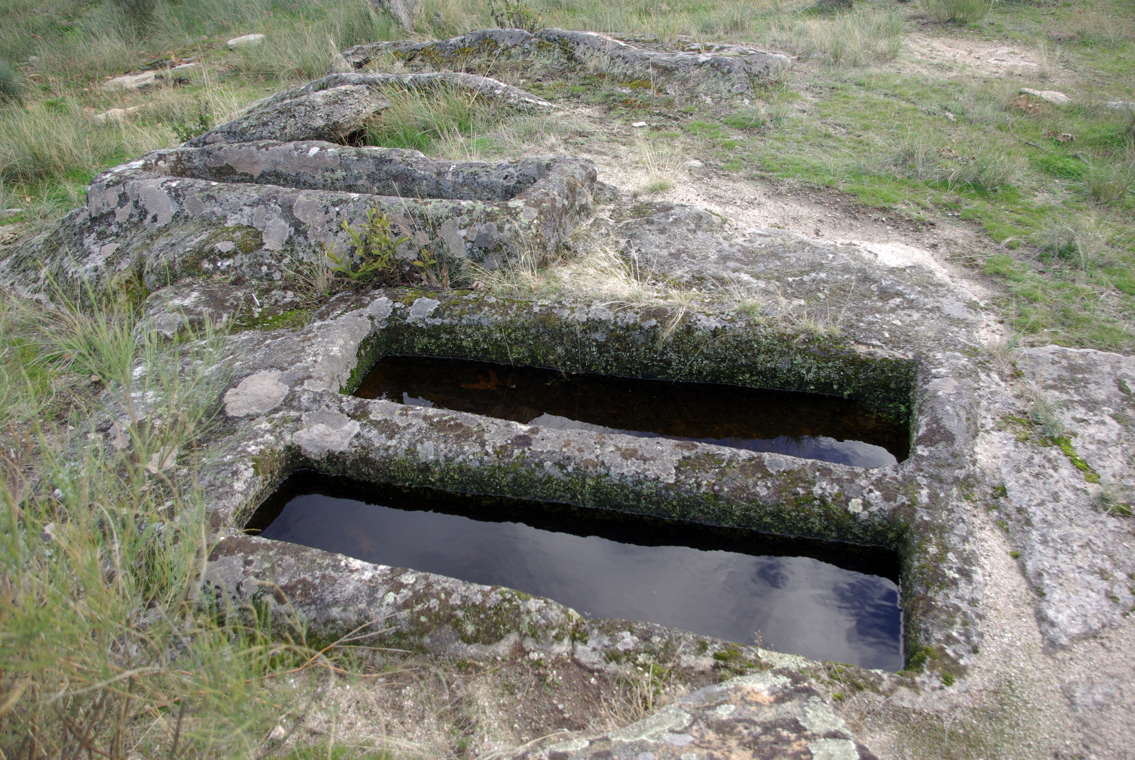 Necropolis in Malpartida, near Almeida (Guarda, Portugal).